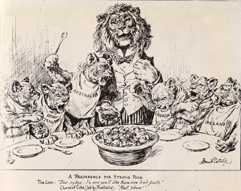 Caption: A Preference for Strong Food The Lion: "Now, my boys, I'm sure you'll like these nice dried fruits" Chorus of Cubs (led by Australia): "Meat, please!" Cartoon from 17 October, 1923 after the Imperial Conference